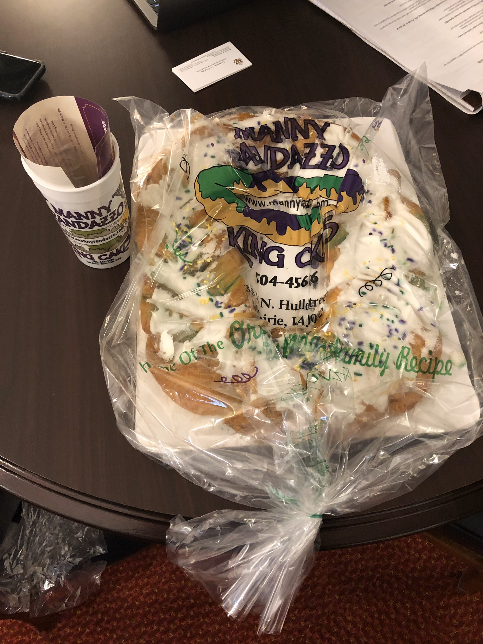 Thanks @SteveScalise for the king cake as we celebrate Mardi Gras, which of course began in Mobile, Alabama Grinning face